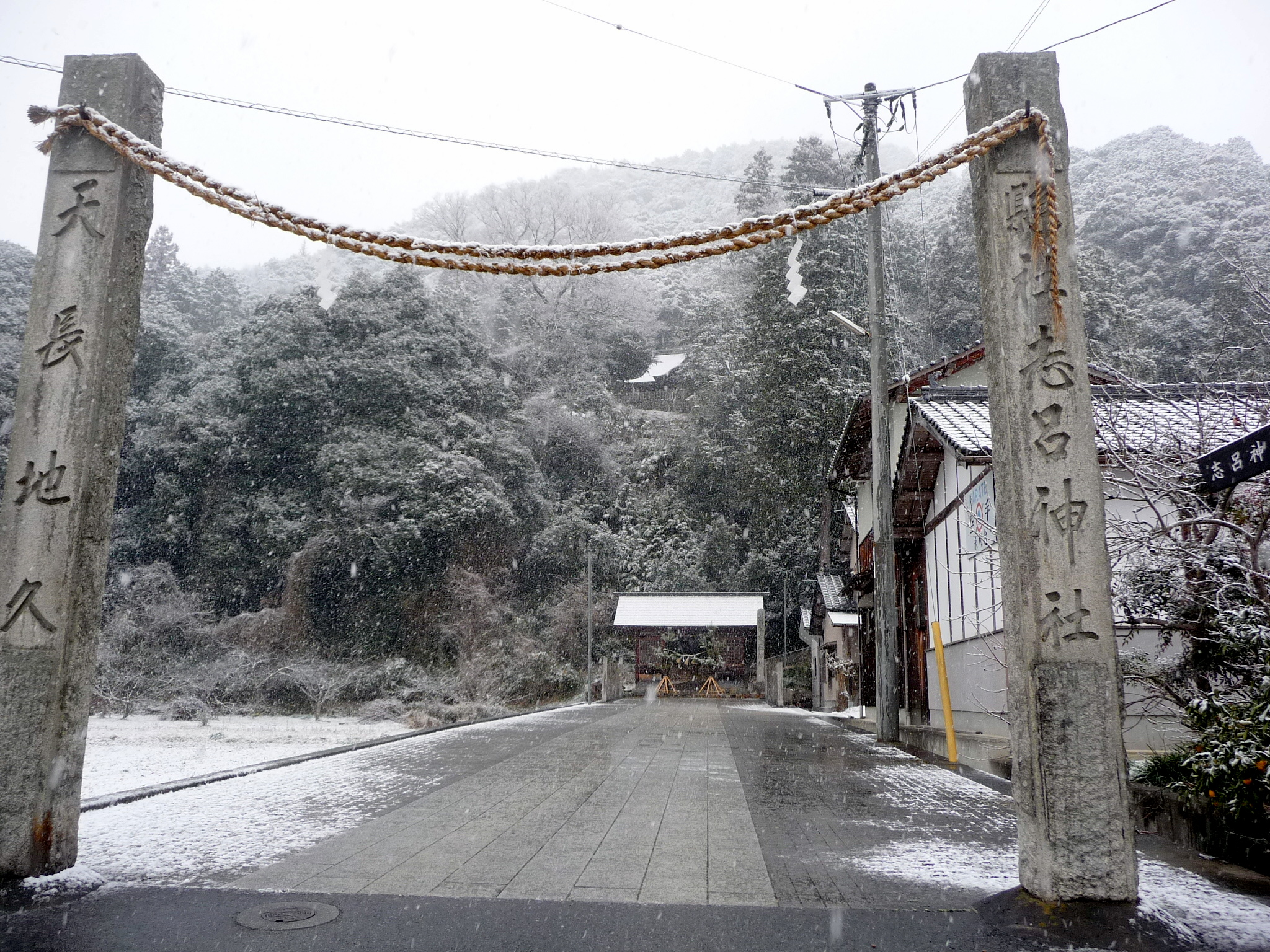 Entrance of Shiro Jinja (Shrine) in Shimokome, Takebe, Okayama, Japan.